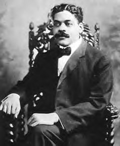 Portrait of Arturo A. Schomburg